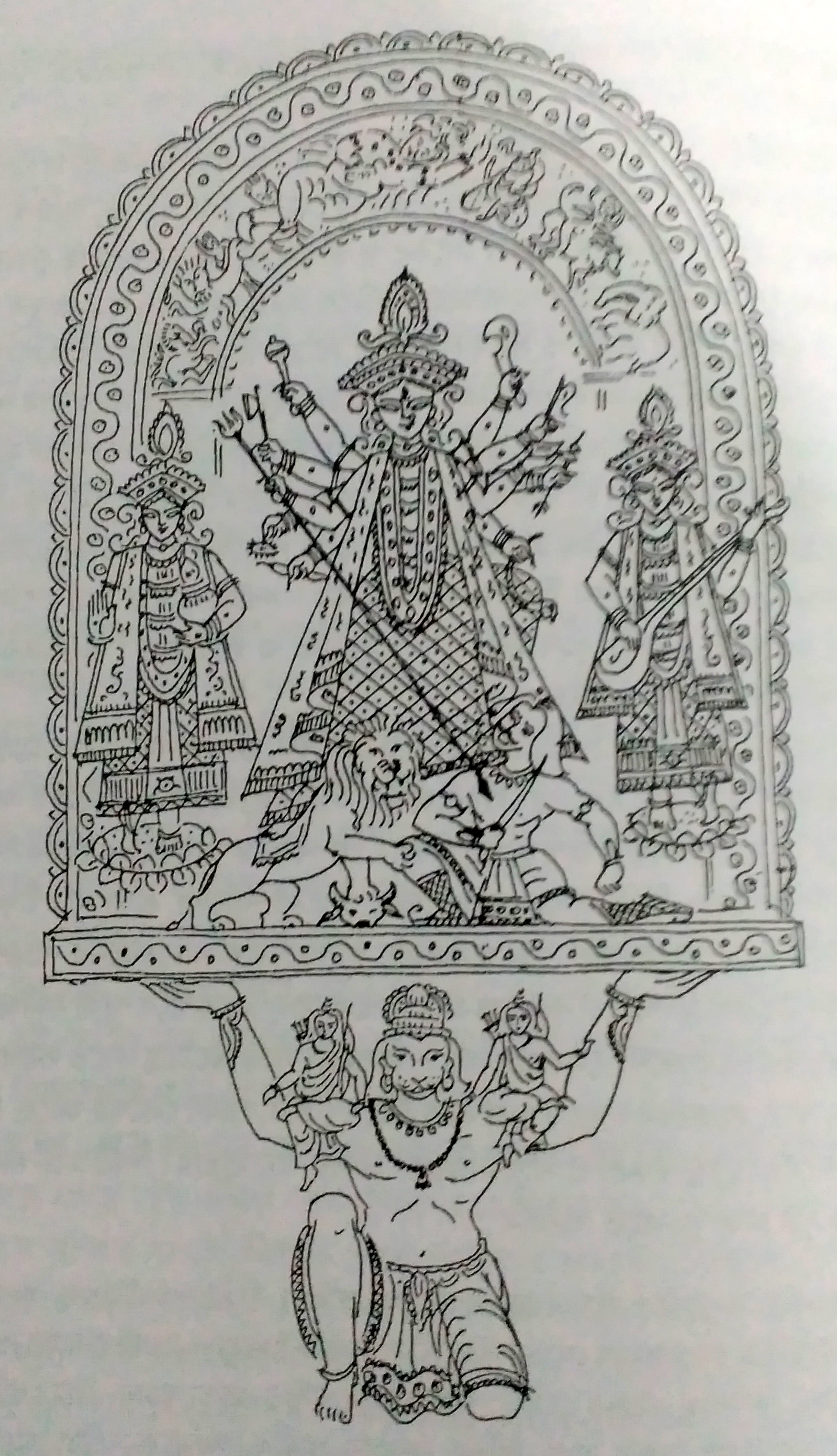 Chari chara para bhadra kali mata with chalchitra